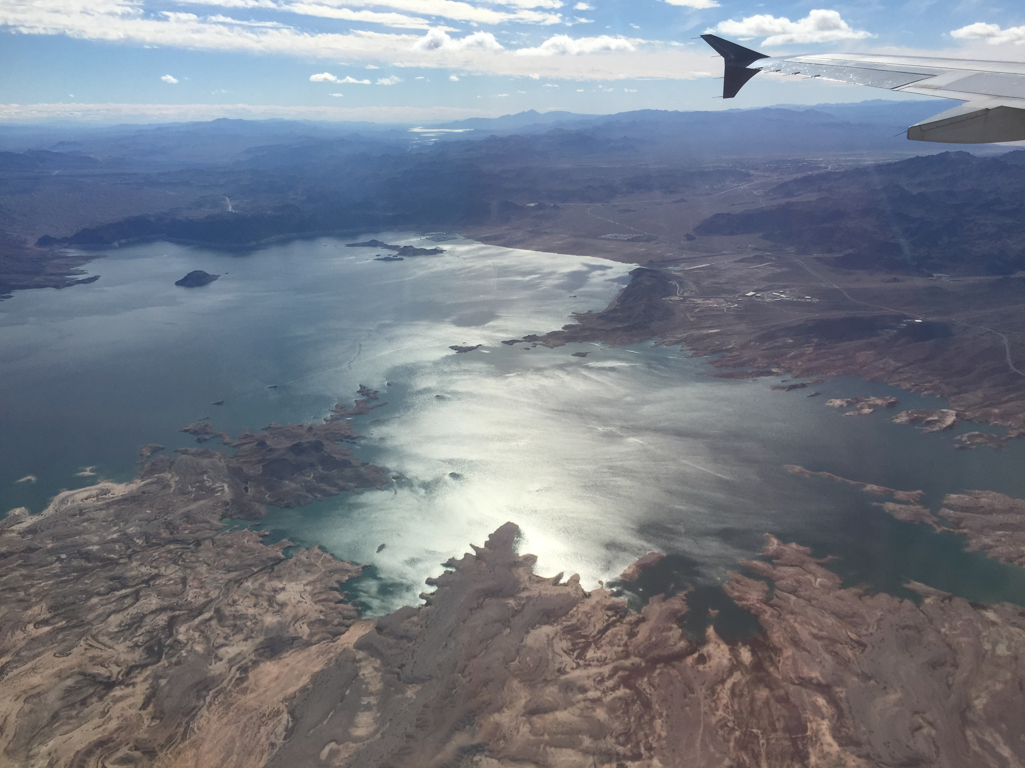 View south across Las Vegas Bay on Lake Mead, Nevada from an airplane. (View due-south, Lake Mohave on horizon, 45 mi downriver of the Colorado). The black range at center-upper right (close, near bay) is the River Mountains of Nevada.